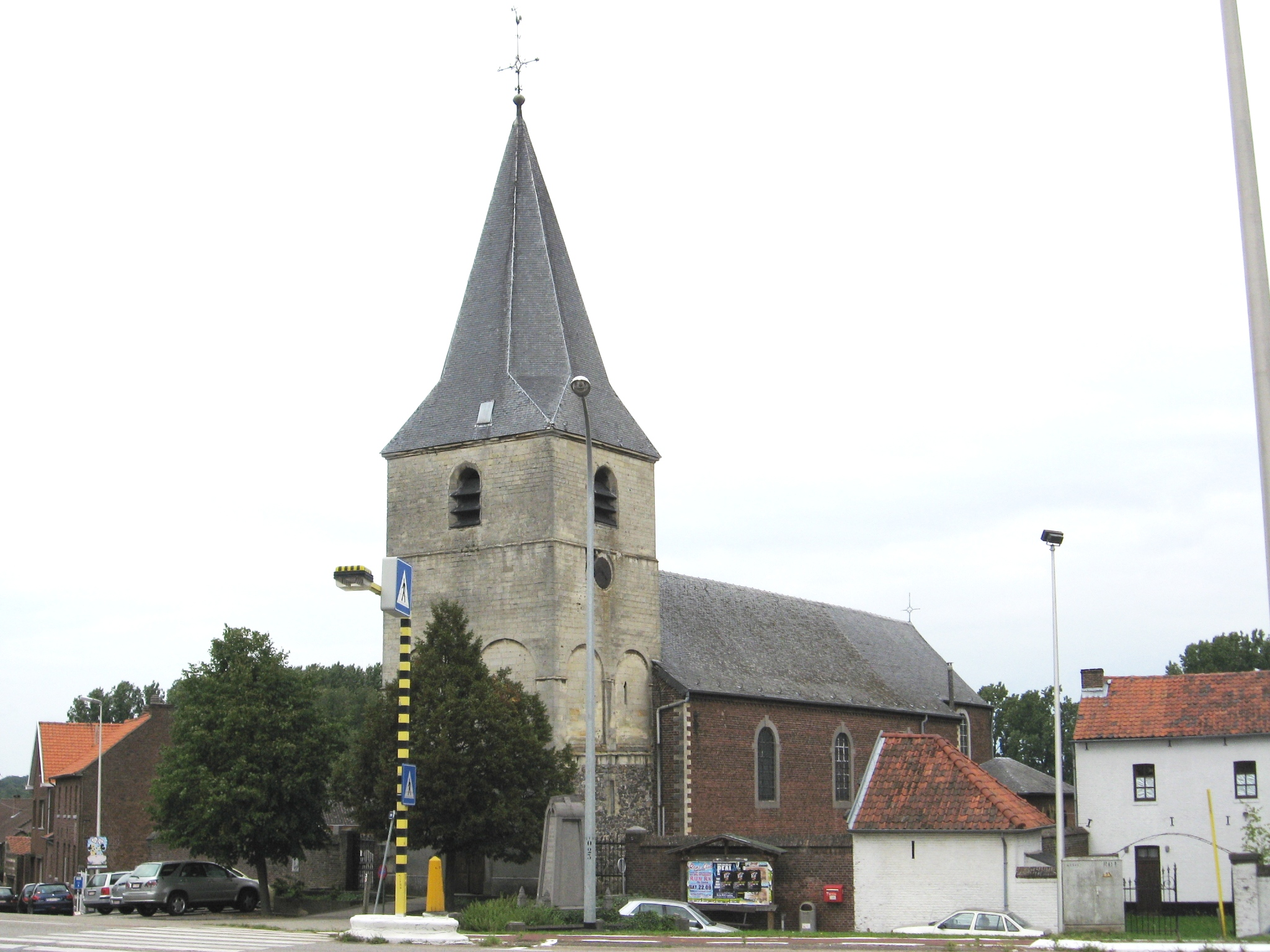 Church of Saint Lawrence in Overrepen, Tongeren, Limburg, Belgium